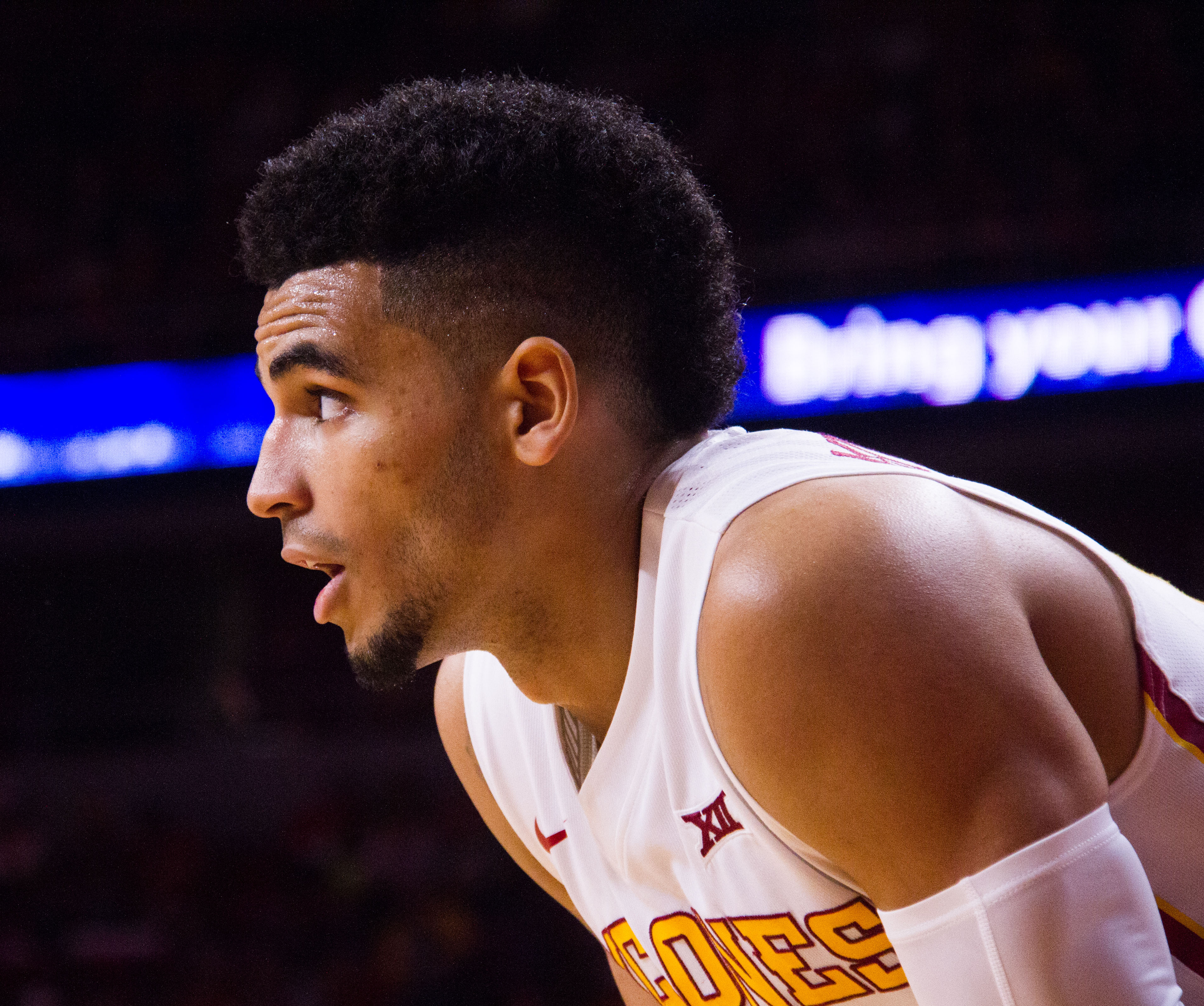 Naz Mitrou-Long playing for the Iowa State Cyclones in 2016.